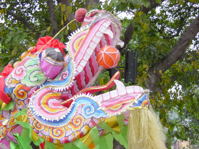 The head of a dragon dance costume in Chongqing, China. The spherical object in the dragon's mouth represents the Pearl of Wisdom.